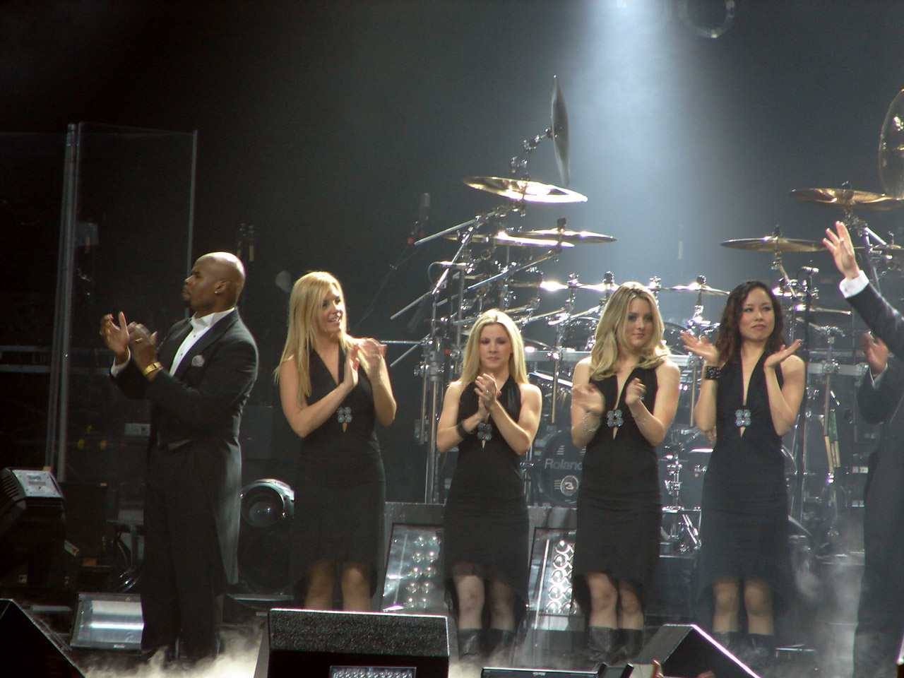 Shots from the Hershey GIANT Center performance of the Trans-Siberian Orchestra, November 2006.